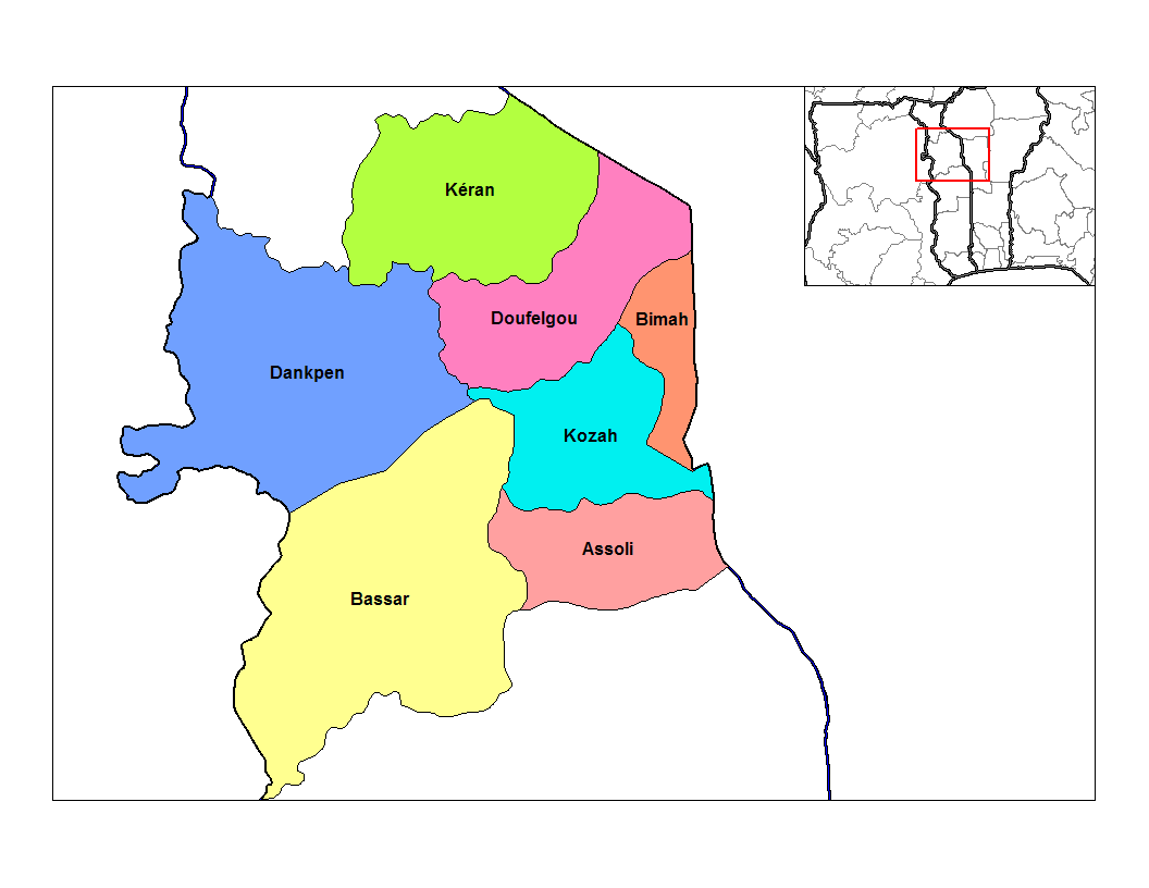 Map of the prefecures of Kara region in Togo. Created by Rarelibra 20:10, 27 December 2006 (UTC) for public domain use, using MapInfo Professional v8.5 and various mapping resources.